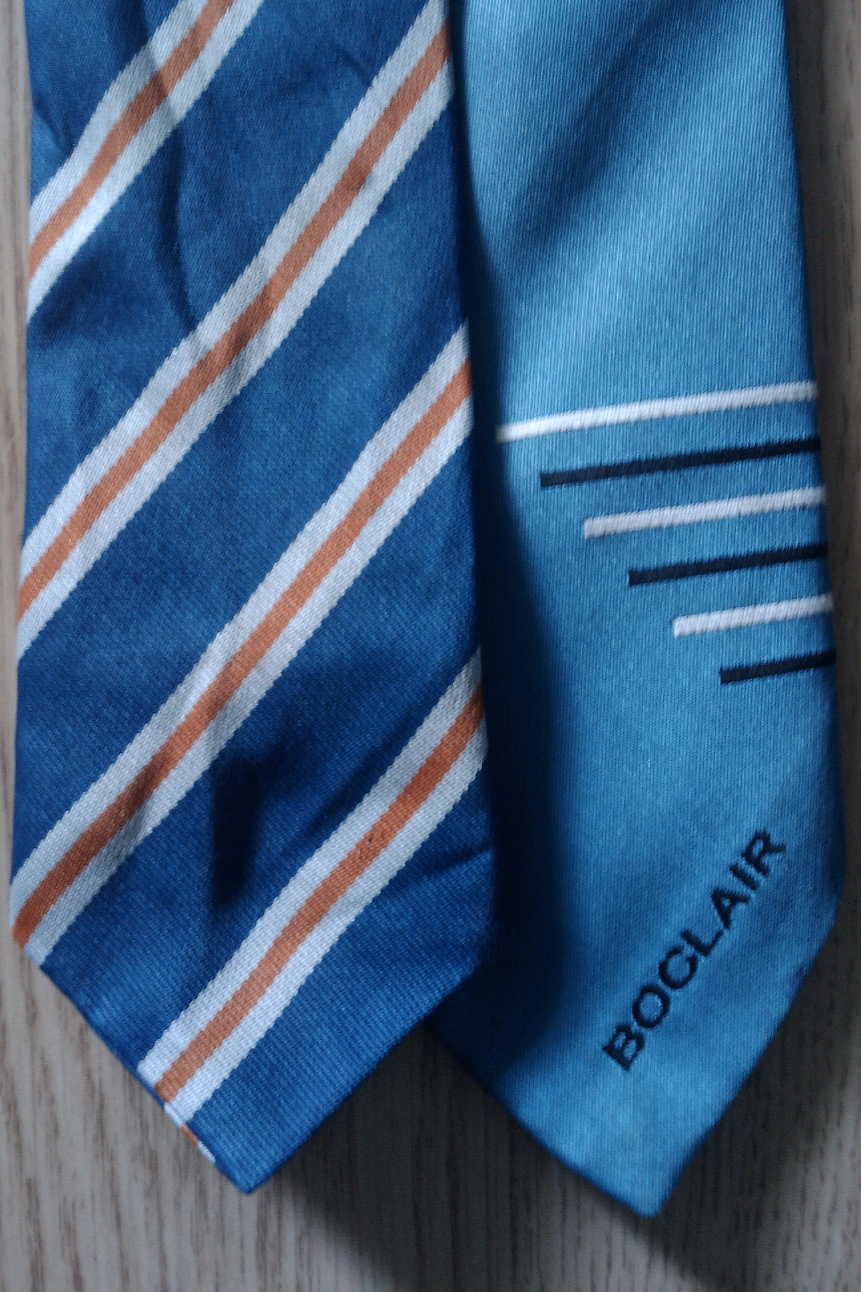 ties flipped